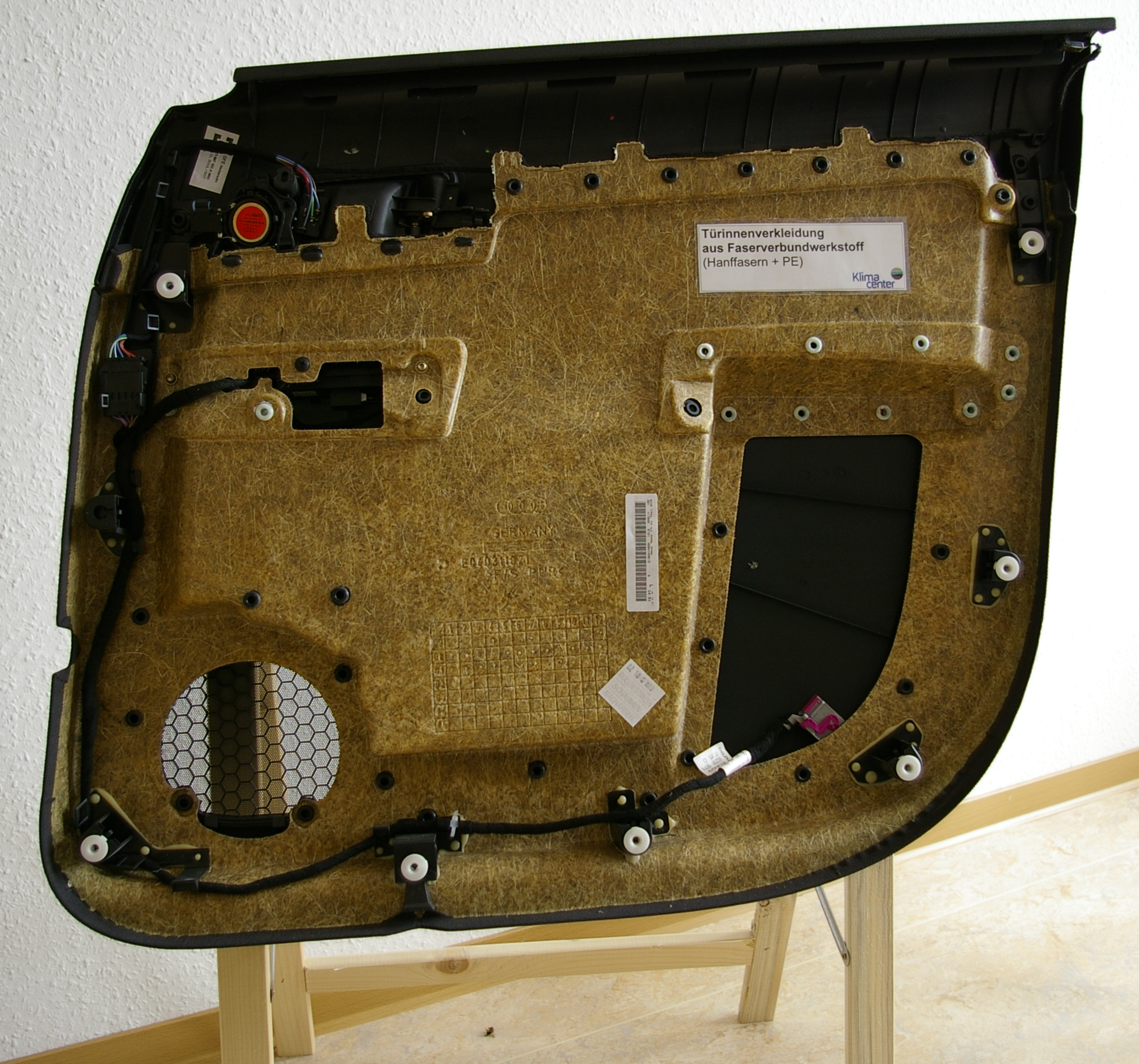 Interior carpeting of a cars door made by a biocomposite of hemp fibres and polyethylen.